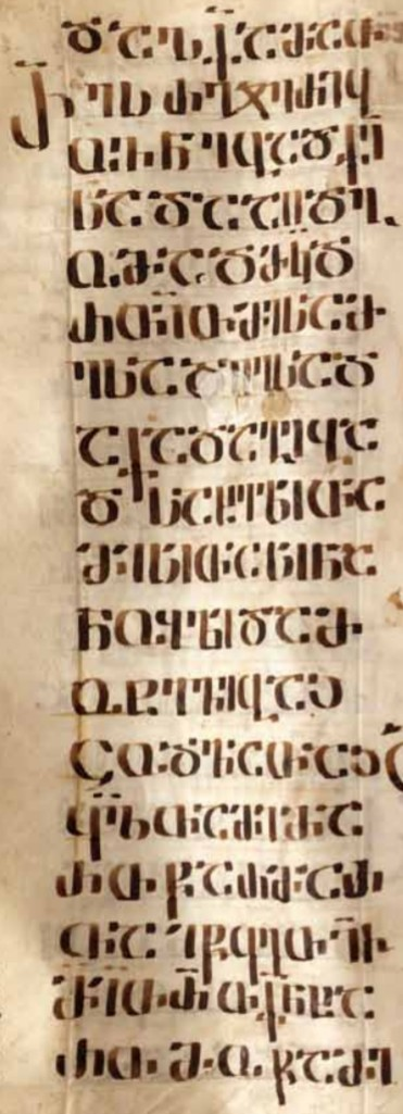 Gospels/Anbandidi Gospel